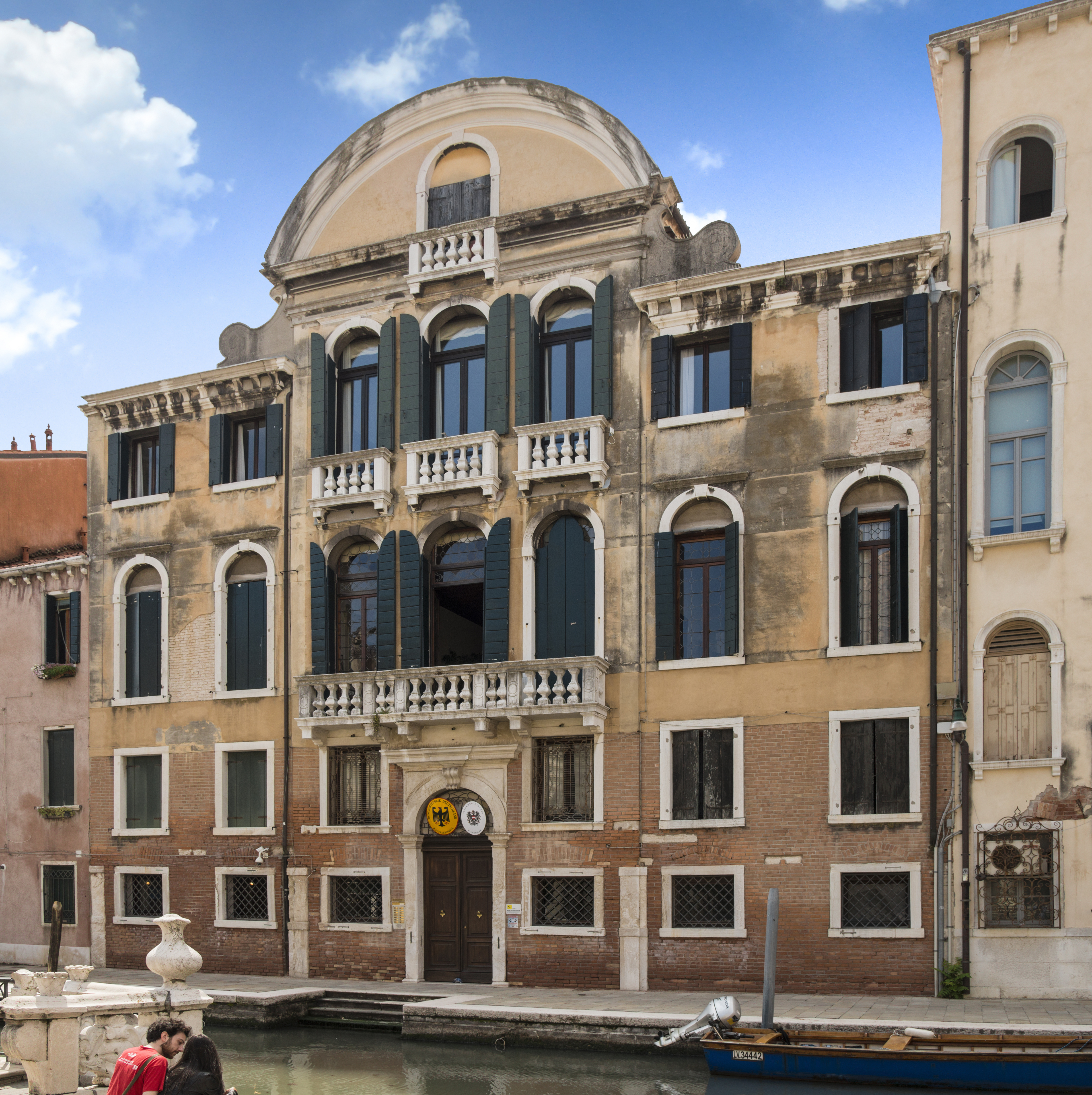 Palace Condulmer in Venice. Facade on Rio dei Tolentini